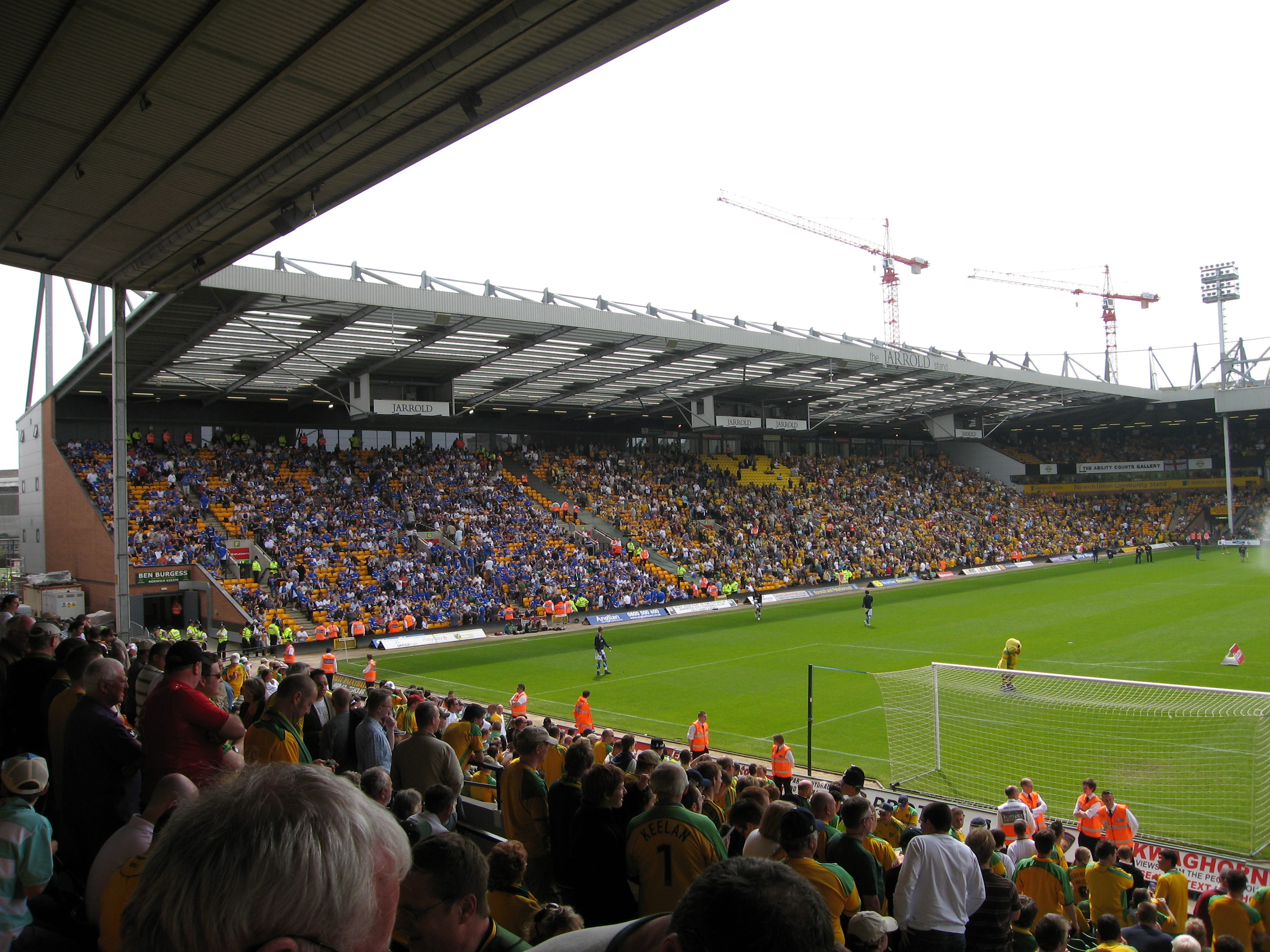 Photograph taken by MLS11 on 22 April 2007 Mls11 20:09, 23 April 2007 (UTC)